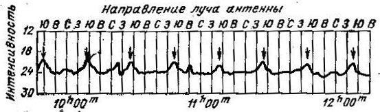 Ever first radio observation of Milky Way by Karl Jansky in 1932-02-24.